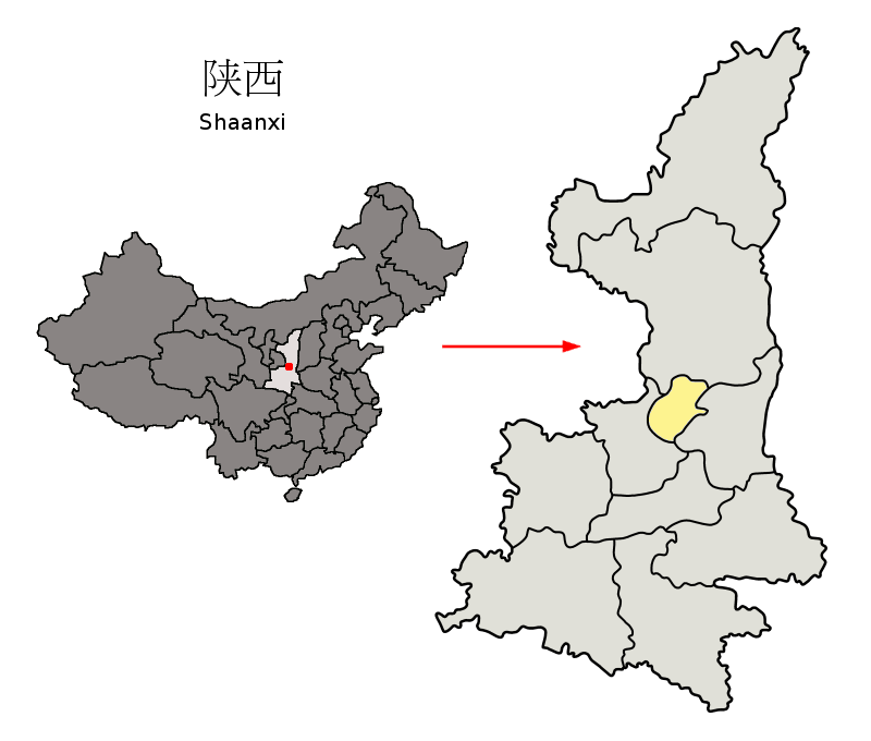 Location of Tongchuan Prefecture (yellow) within Shaanxi Province of China Map drawn in december 2007 using various sources, mainly : Shaanxi Province administrative regions GIS data: 1:1M, County level, 1990 Shaanxi Counties map from